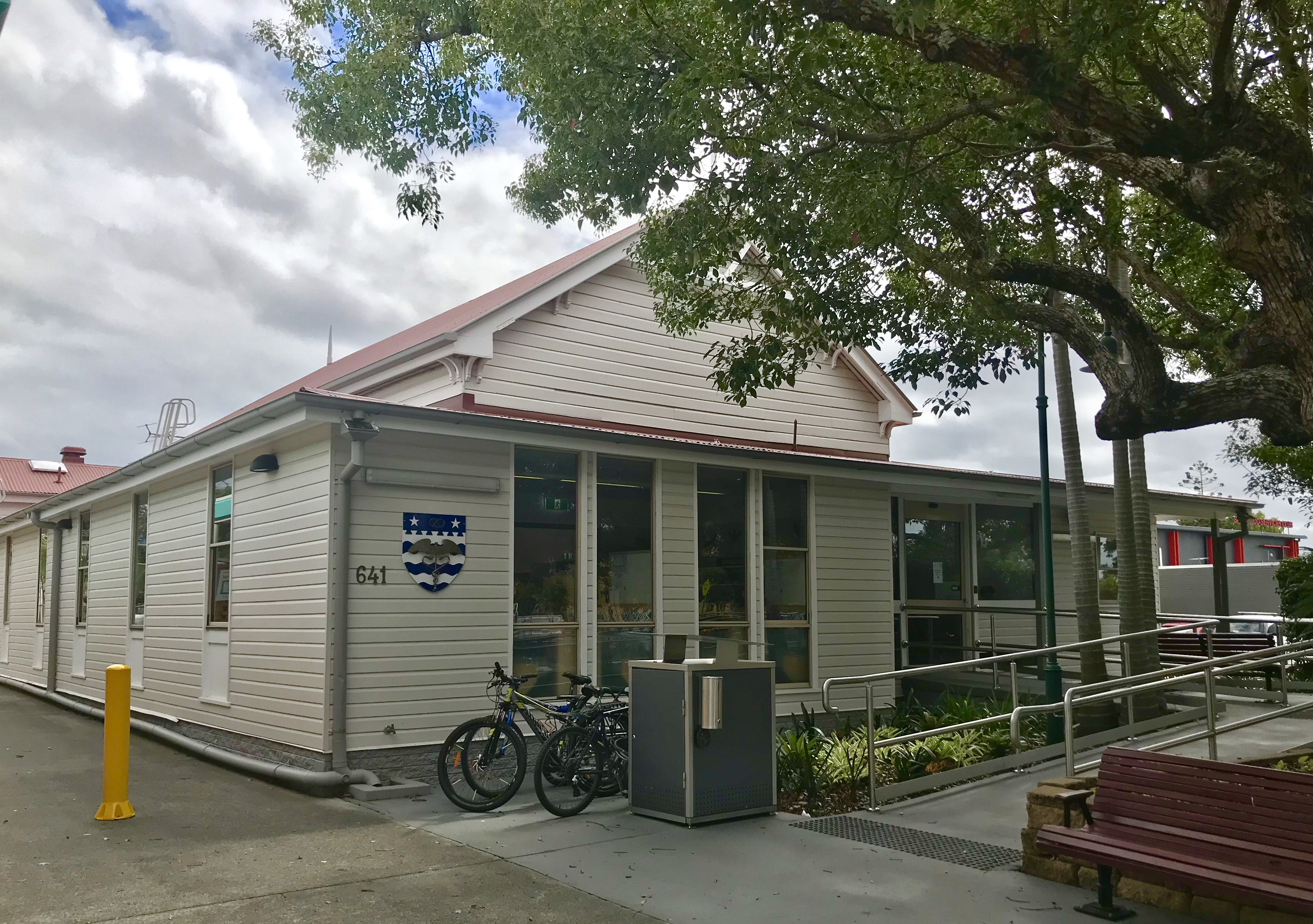 Corinda Library building, Corinda, Queensland